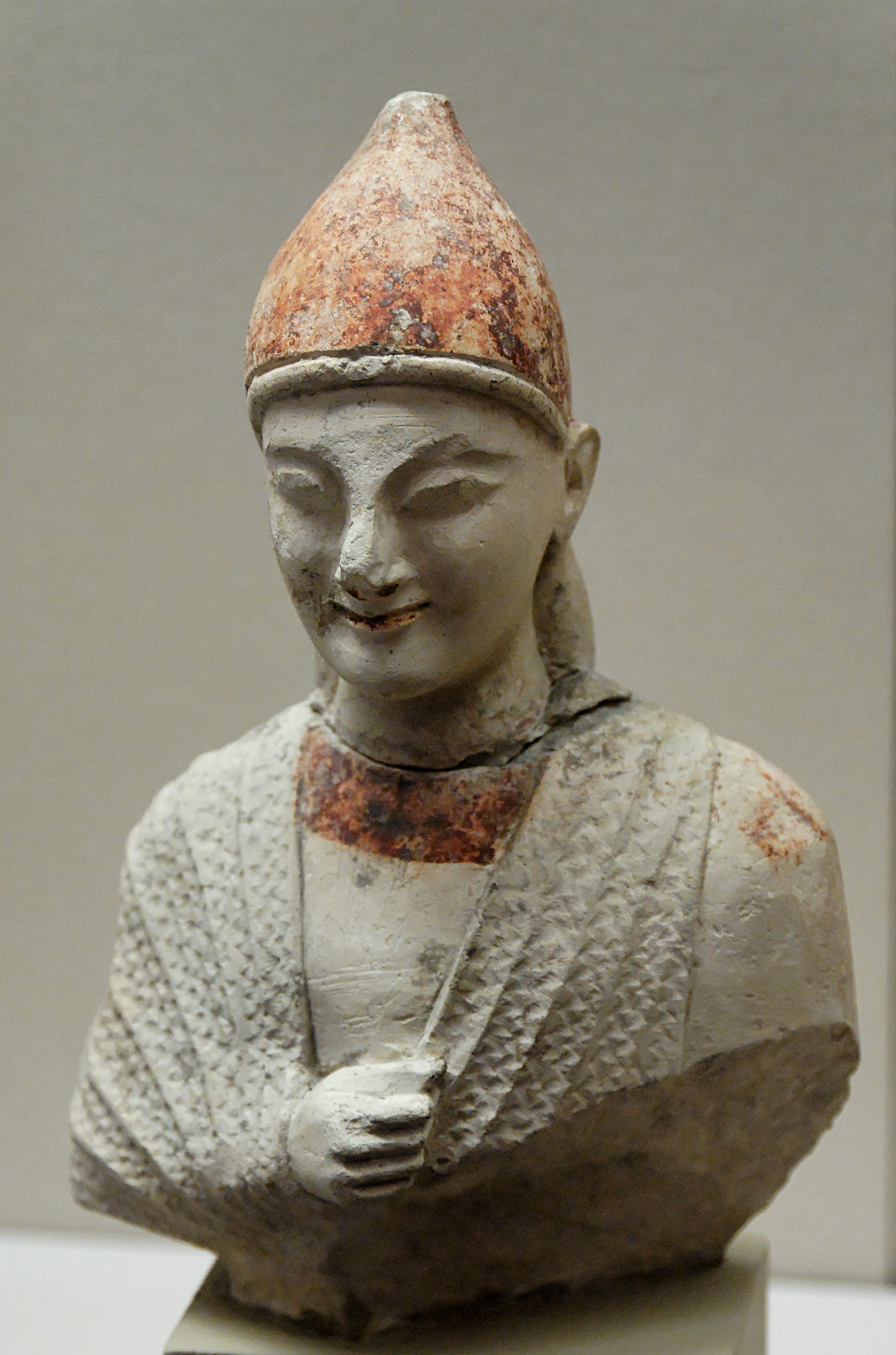 Young man with pointed cap. Limestone, Cypro-Archaic II (middle of the 6th century). From Idalion, Cyprus.